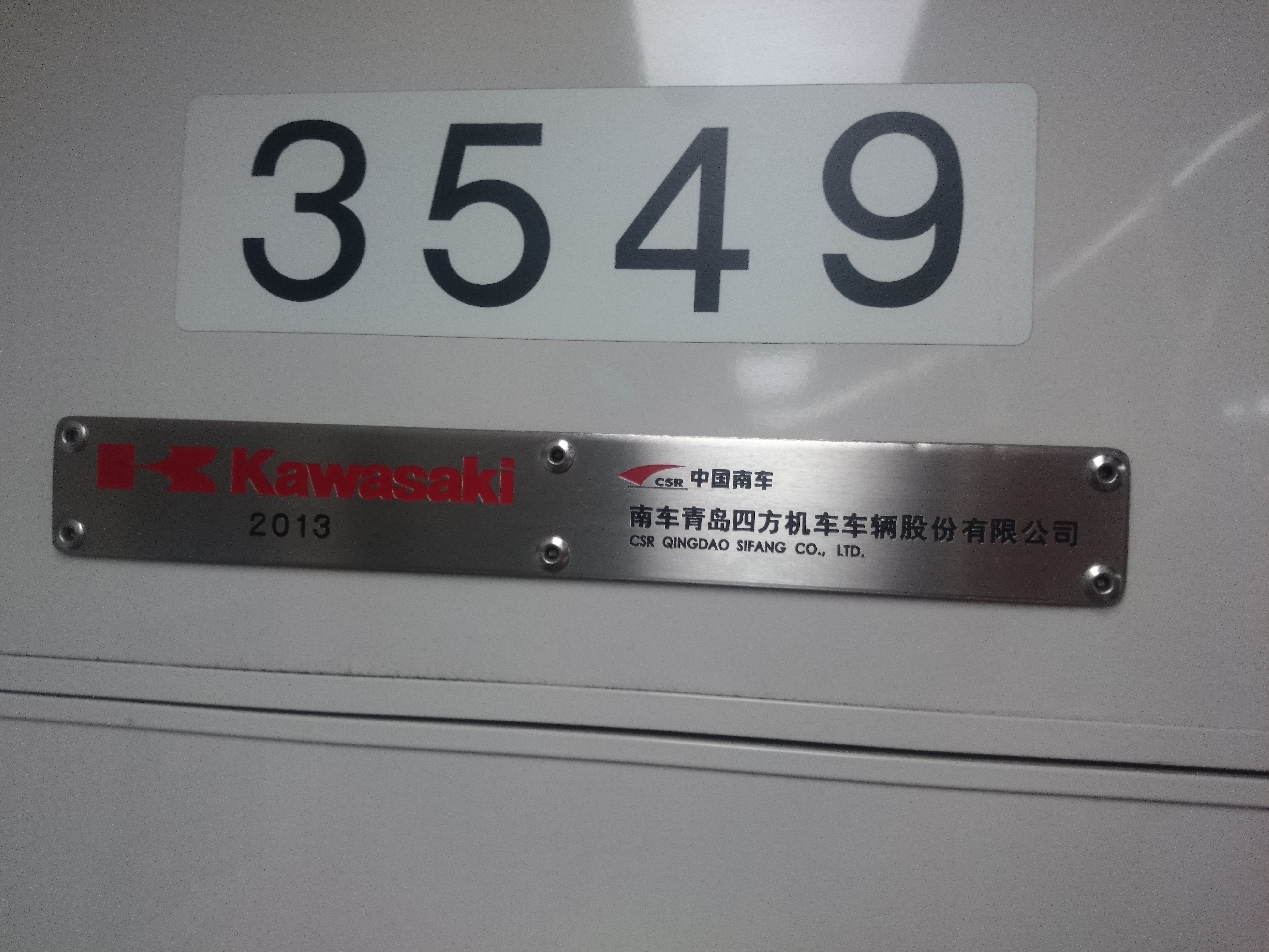 A label on a Kawasaki C151A Mass Rapid Transit train in Singapore showing the logos of Kawasaki and CSR.